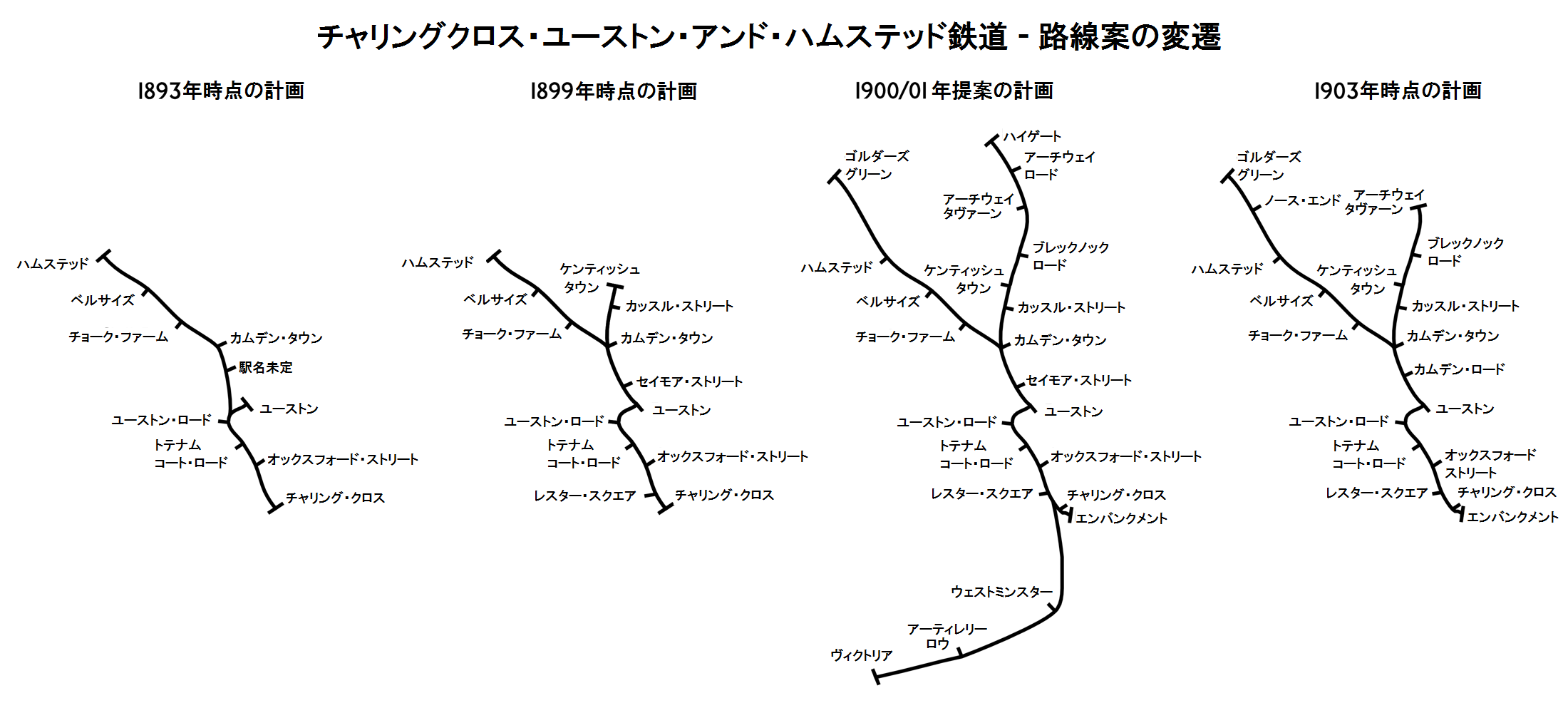 Geographic Map of the Charing Cross, Euston & Hampstead Railway showing development of its planned route before construction started. (CCE&HR). See also Image:C&SLR.svg based on Image:Northern Line.svg by User:Ed g2s